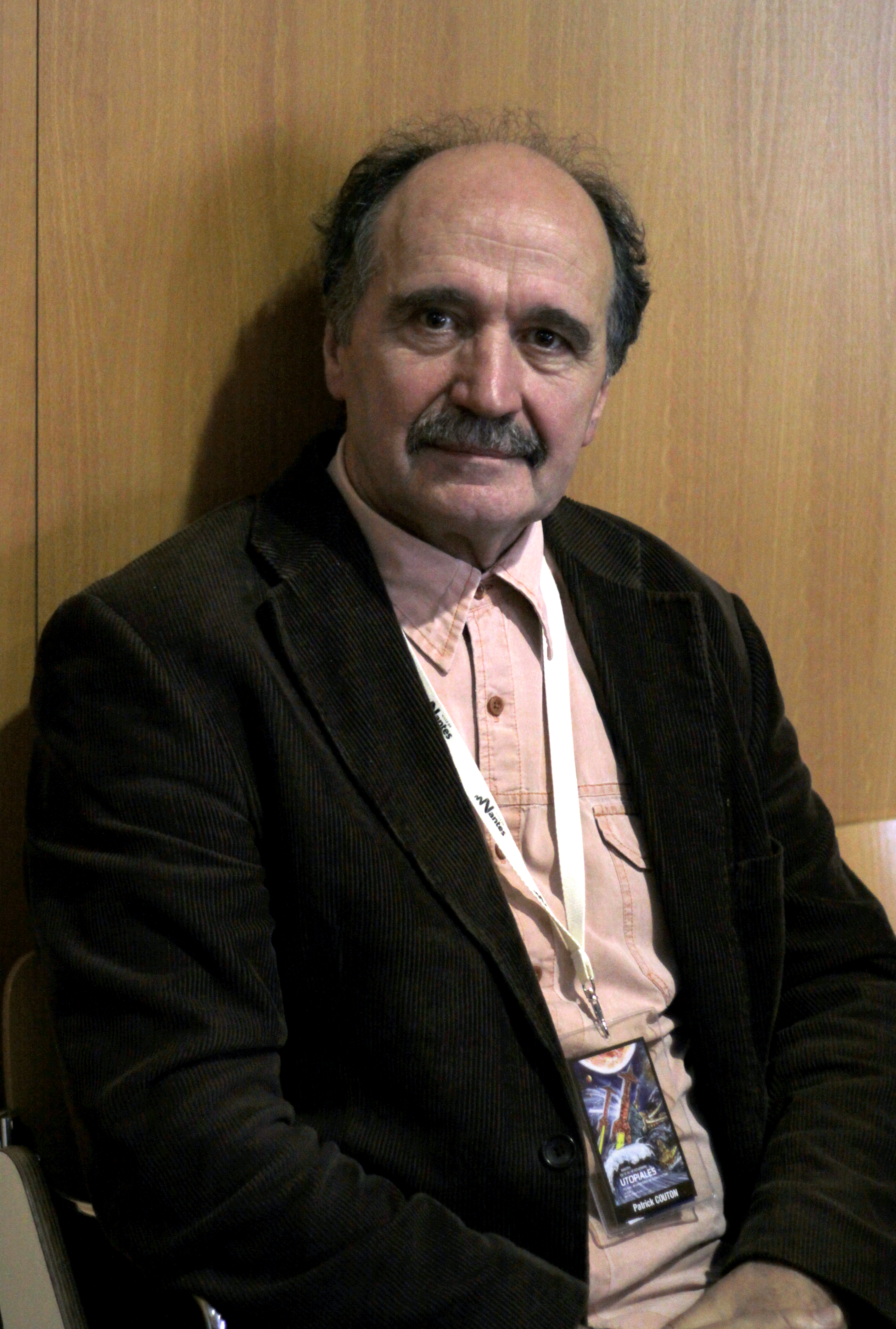 French musician and translator Patrick Couton.